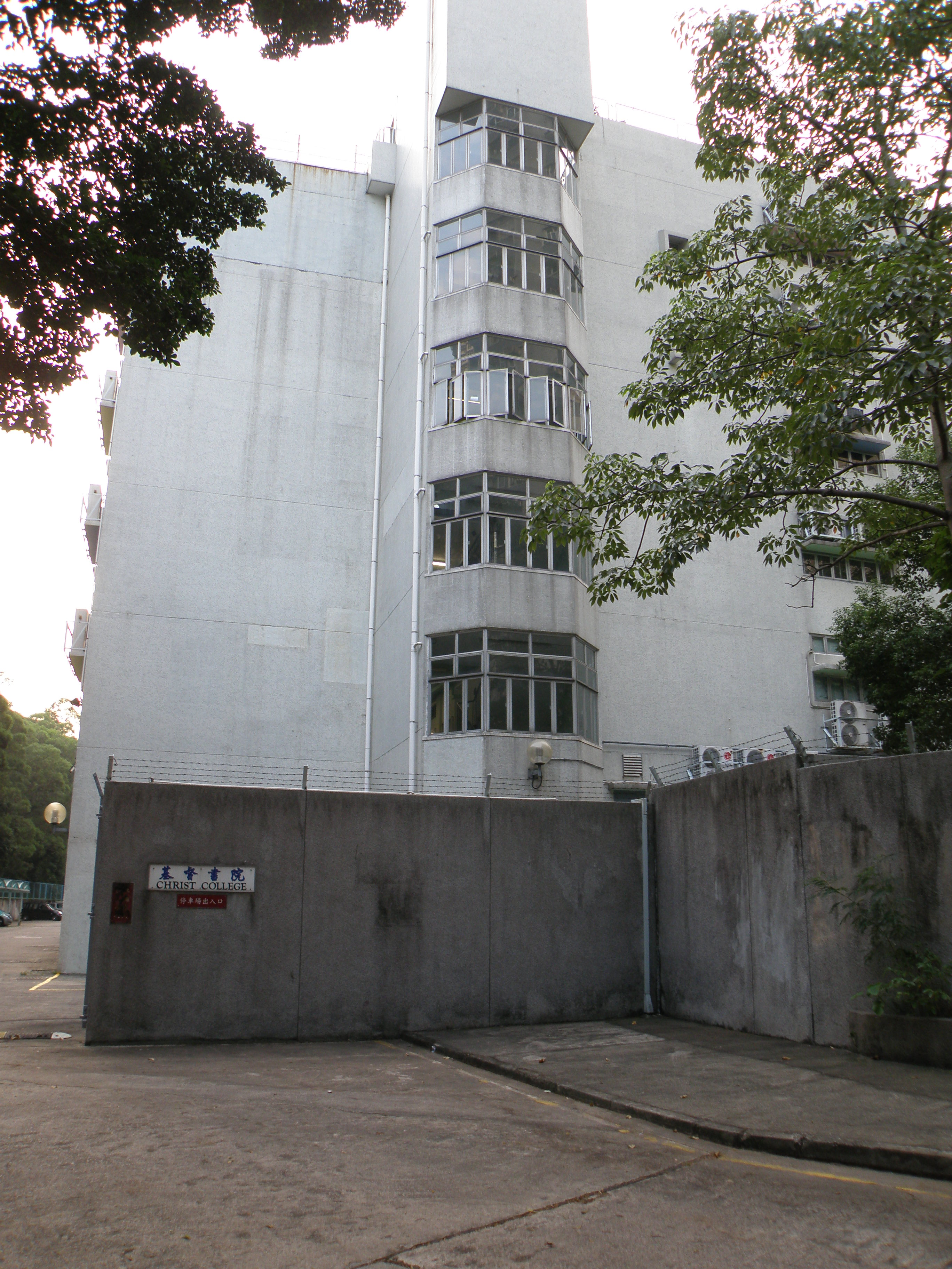 Christ College in Sha Tin Wai, Hong Kong.